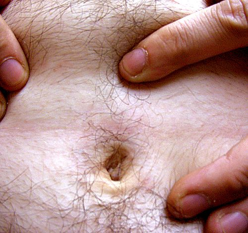 The picture above was taken with a Toshiba PDR-2300 digital camera on 2 June 2004. It's my (grendel|khan) navel, with some lint in it. It was taken with a timer. It was scaled down from the original 1600x1200 and slightly enhanced by yeoua.